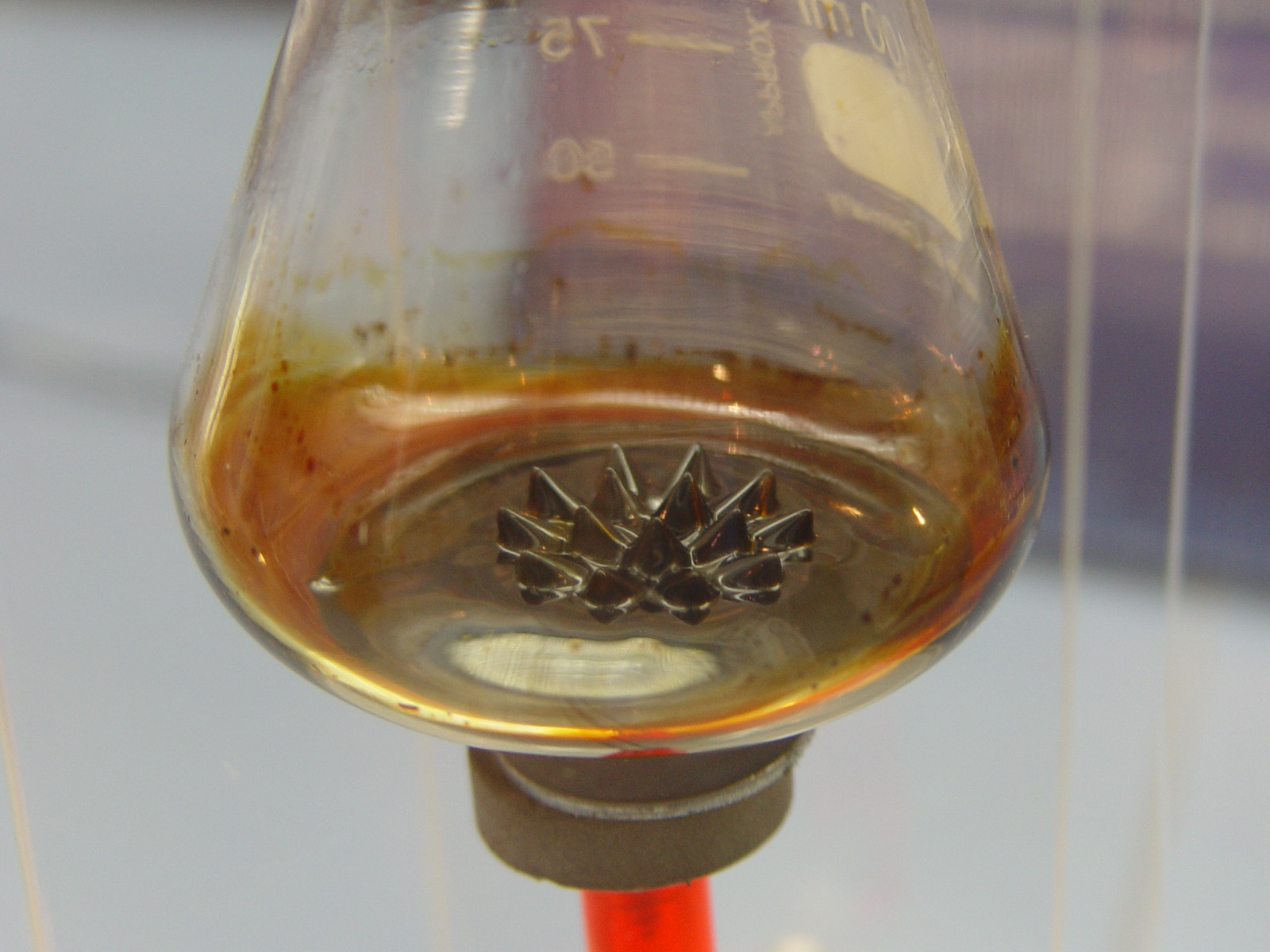 A ferrofluid, influenced by a magnet underneath.